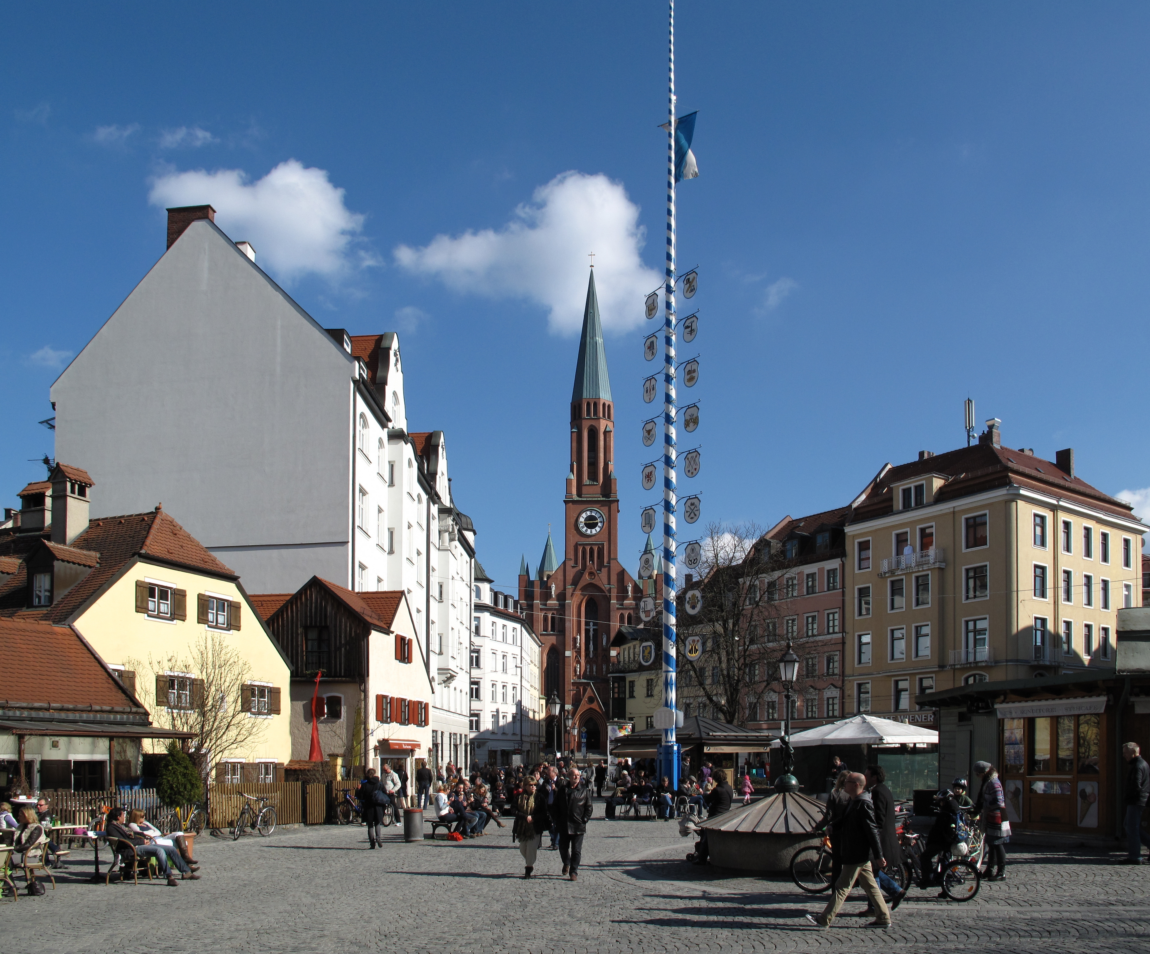 Wiener Platz, Haidhausen, Munich